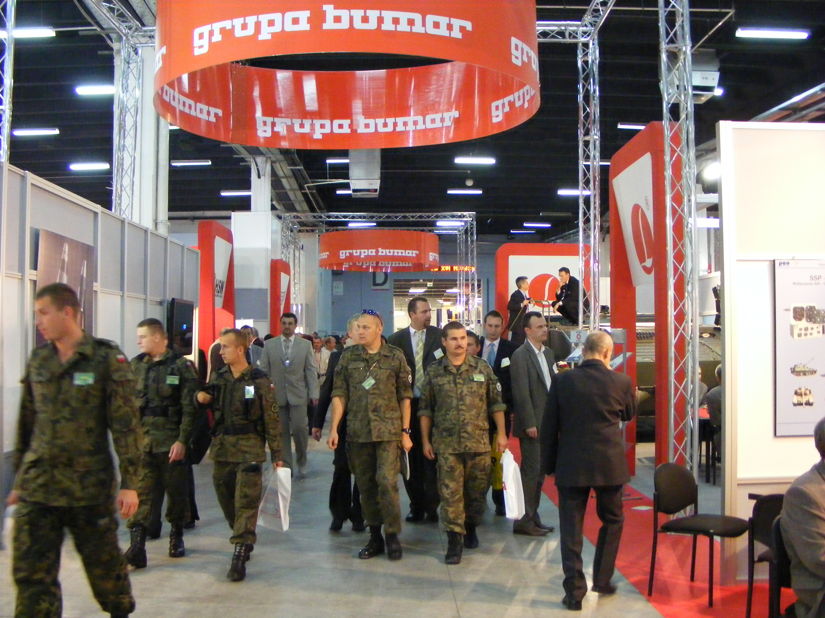 Grupa Bumar's exhibit at MSPO 2008.